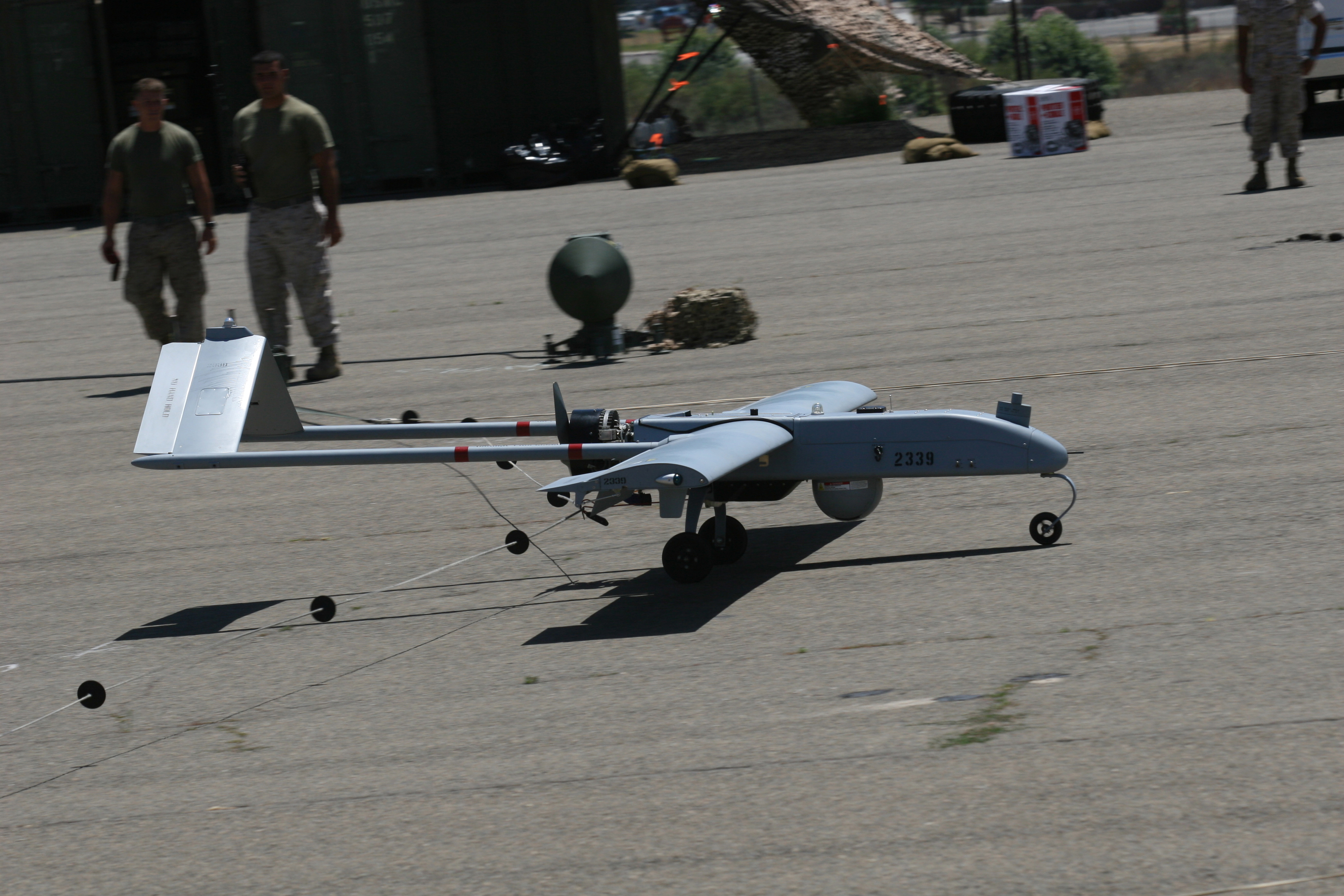 A RQ-7B Shadow 200 beloning to Marine Unmanned Aerial Vehicle Squadron 1, lands after more than two-hours of flight aboard Marine Corps Base Camp Pendleton, July 27. The aircraft has been supporting troops on the ground in both Afghanistan and Iraq. (Official U.S. Marine Corps photo by Cpl. Christopher O'Quin)(Released)